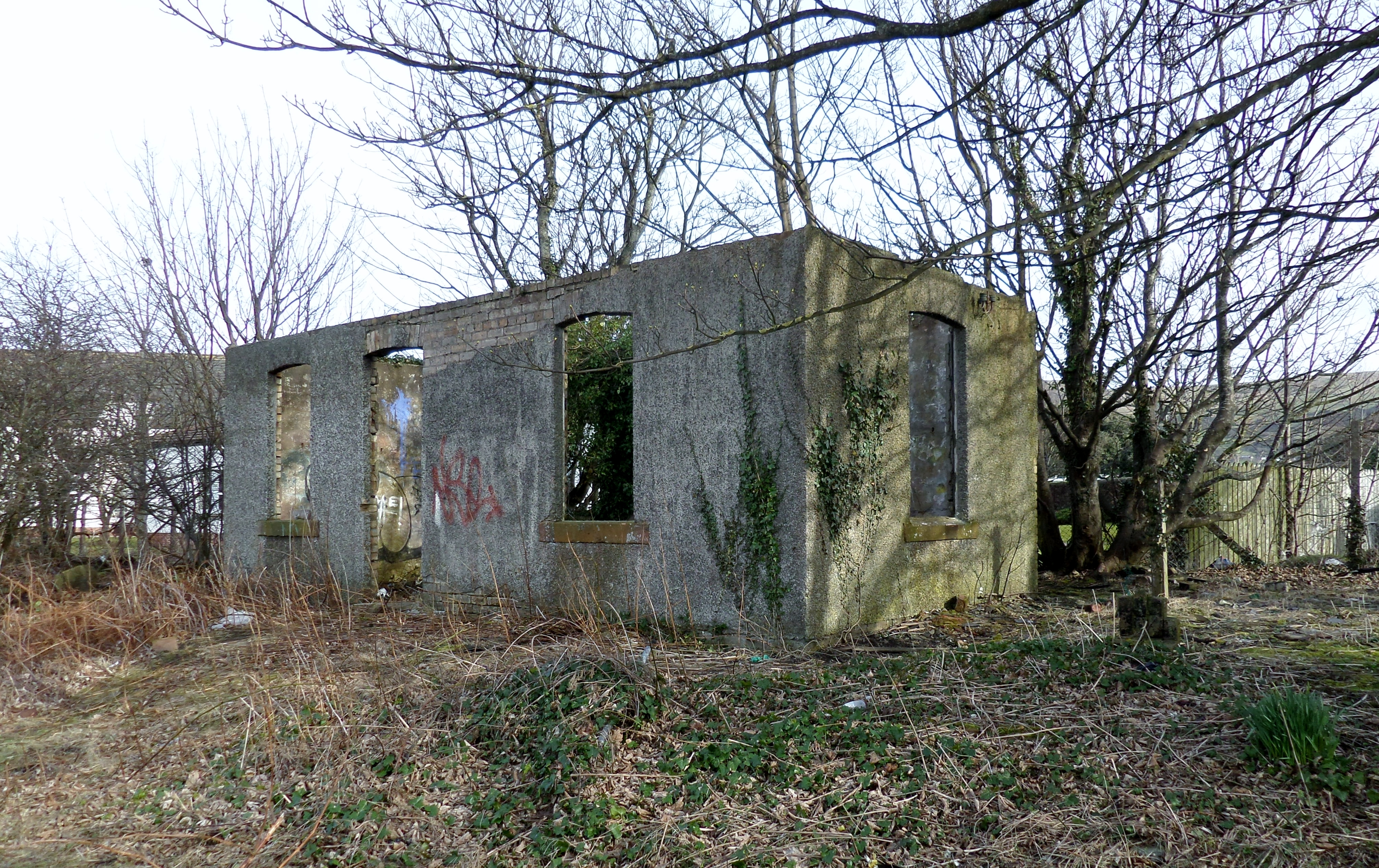 Old Girvan Goods Station, South Ayrshire, Scotland. Site of Girvan Old Station.